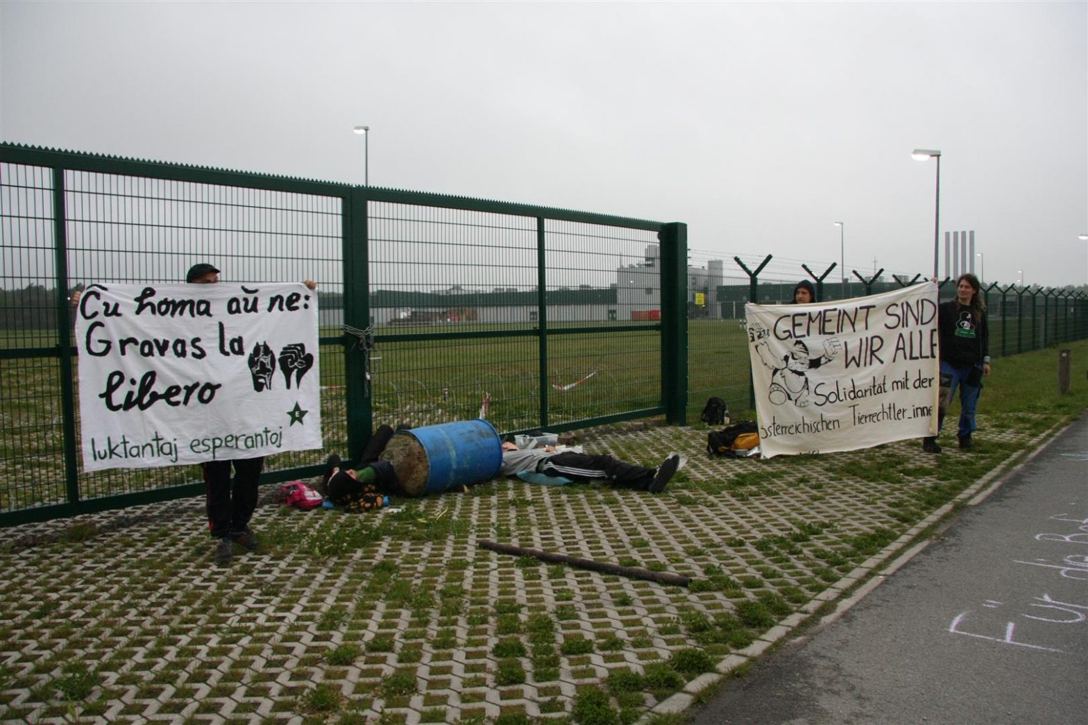 Vegan manifestation in esperanto